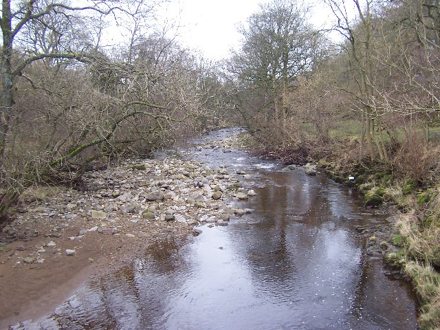 River Cover from St. Simons Bridge, near East Scrafton